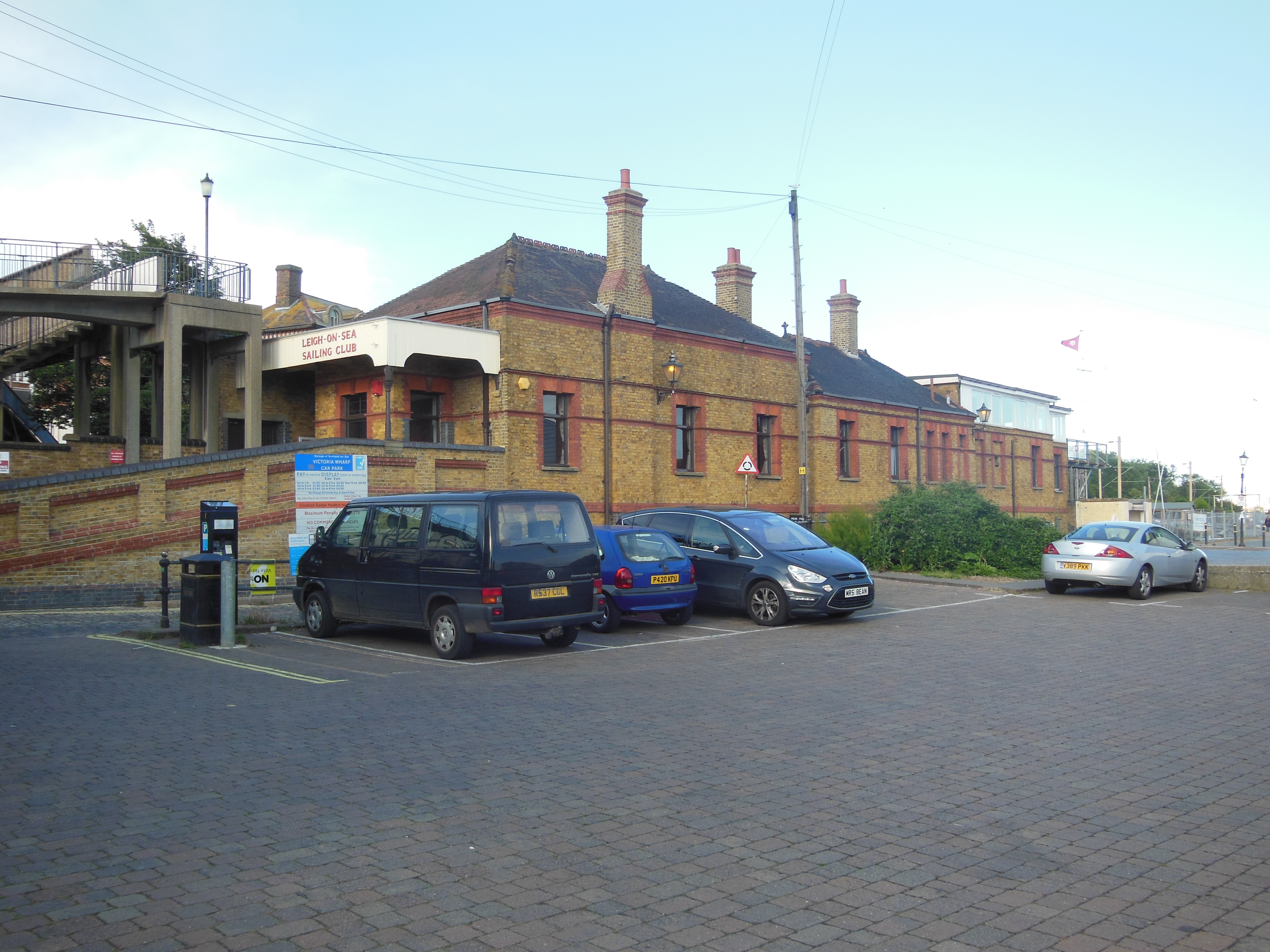 The former railway station at Leigh-on-Sea, now used by Leigh Sailing Club. For more information, see the Wikipedia article Leigh-on-Sea railway station.